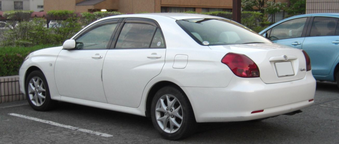 Toyota Verossa